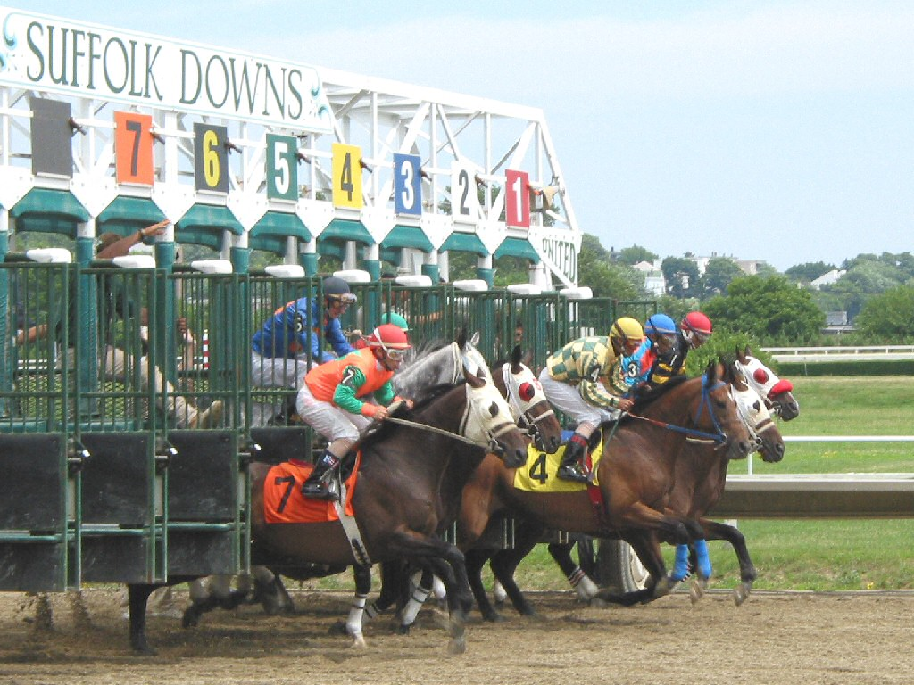 Starting Gate at Suffolk Downs. East Boston, Massachusetts, 2004 photo by alcinoe